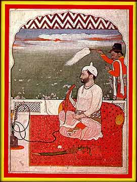 Maharaja Sansar Chand of the kingdom of Kangra, in present day Himachal Pradesh, India. Behind him is his captain of the guard, O'Brien, an Irish deserter of the British East India Company.